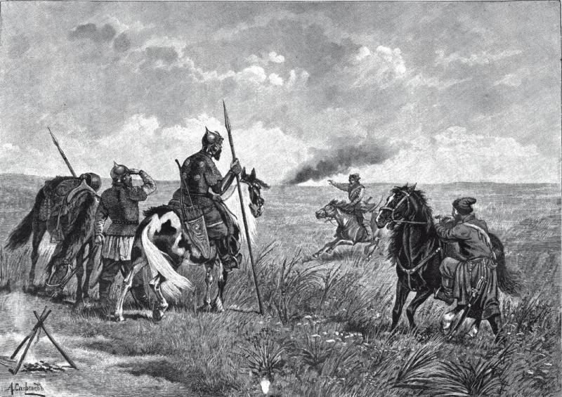 Alert of the Russian steppe border guards (16th century)